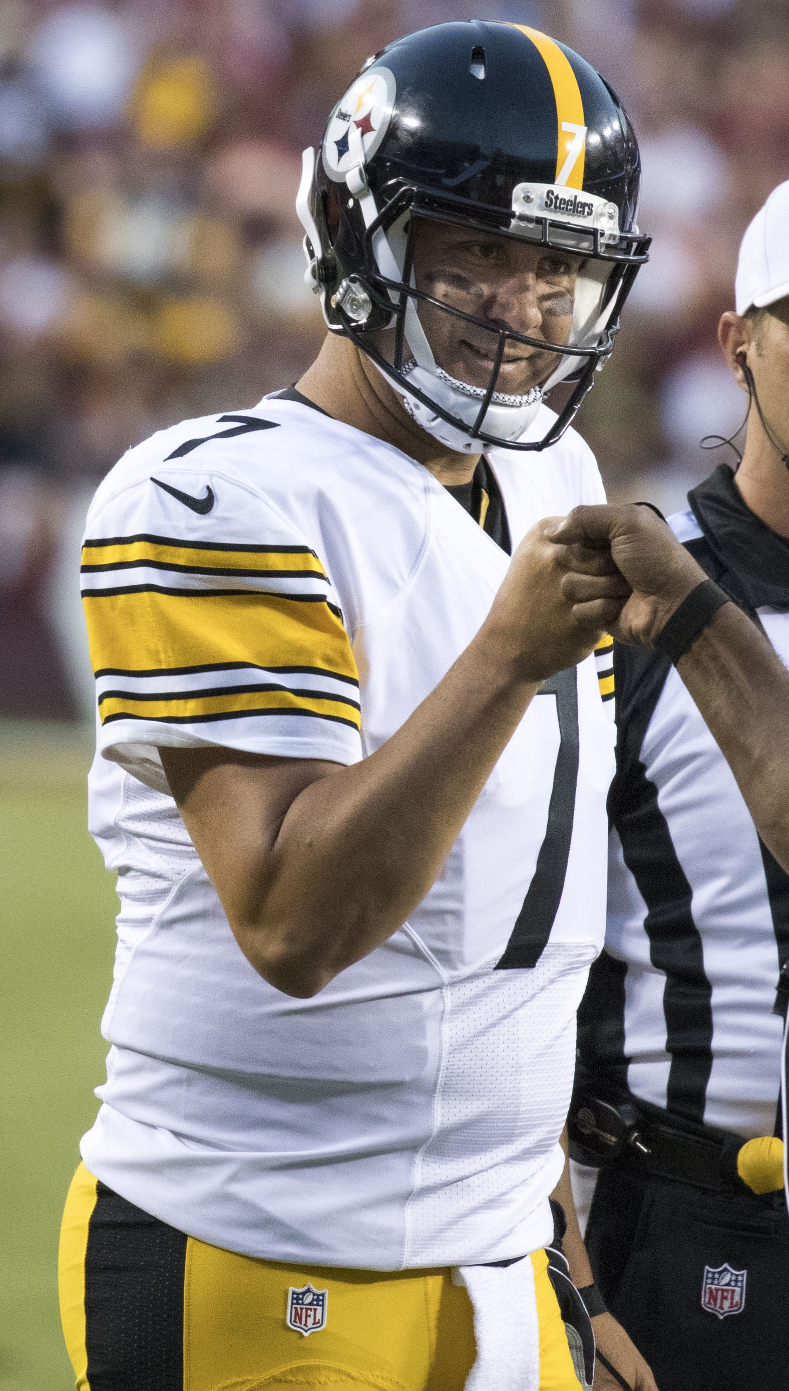 Steelers at Redskins 9/12/16